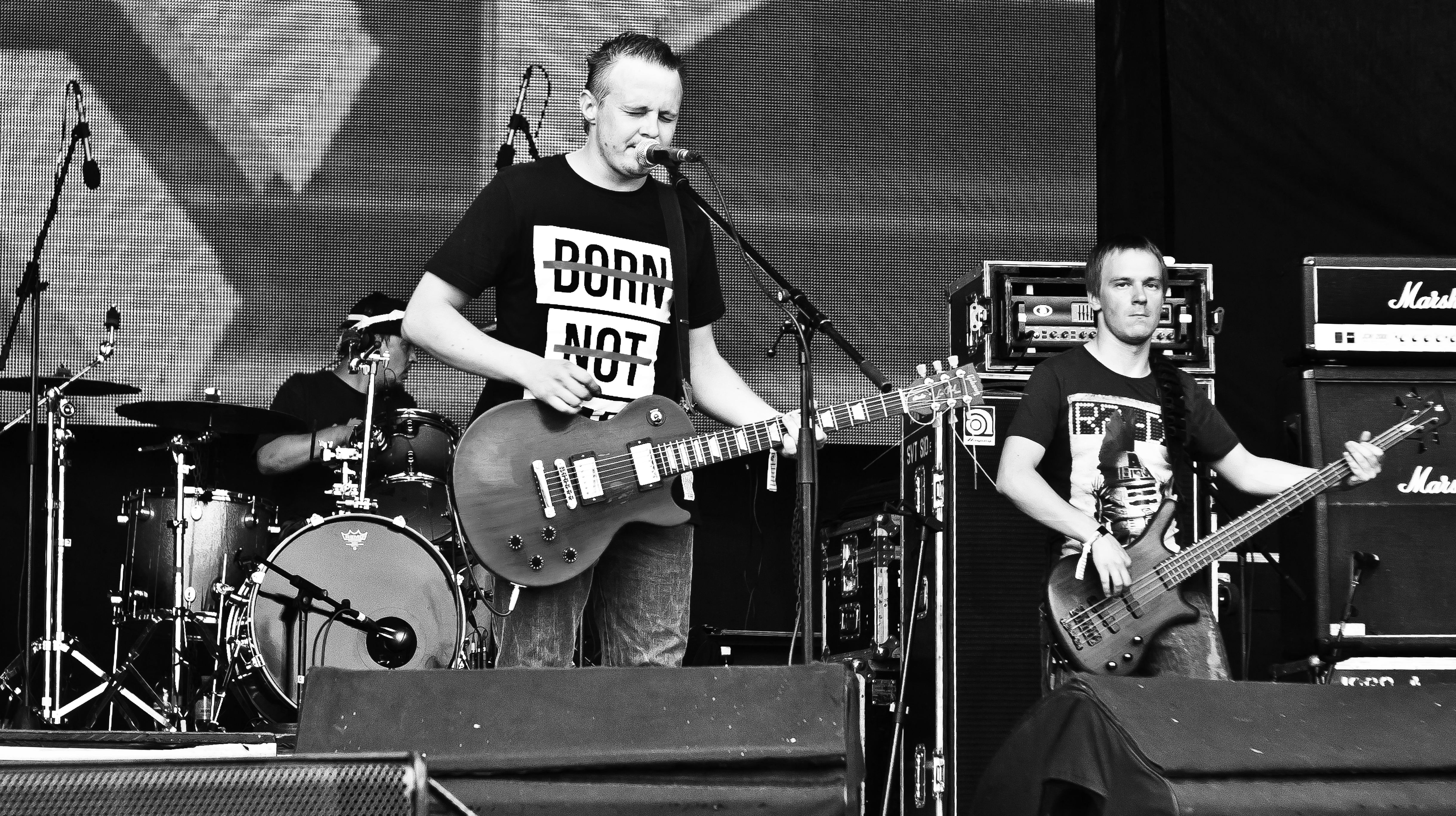 Sciana band from Belarus.